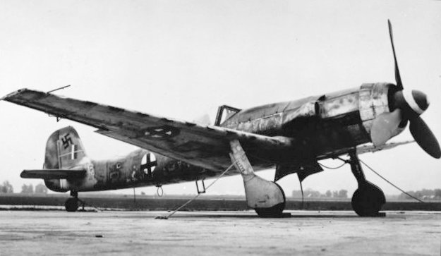 PictionID:38235560 - Catalog:Array - Title:Array - Filename:15_002304.TIF - -------Image from the Charles Daniels Photo Collection.----Album: German Aircraft.-----------PLEASE TAG these images with any information you know about them so that we can permanently store this data with the original image file in our Digital Asset Management System.-----------------SOURCE INSTITUTION: San Diego Air and Space Museum Archive